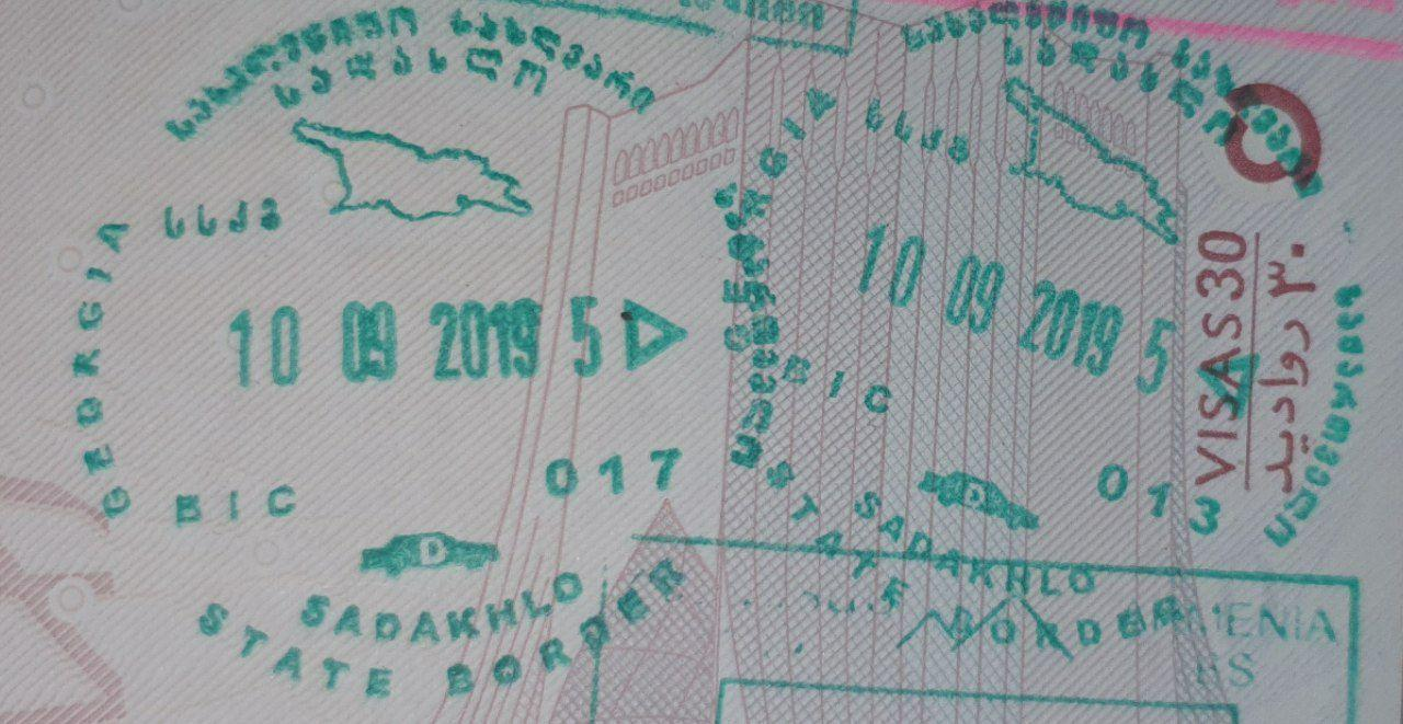 Georgia (Sadakhlo) Entry and Exit Stamp